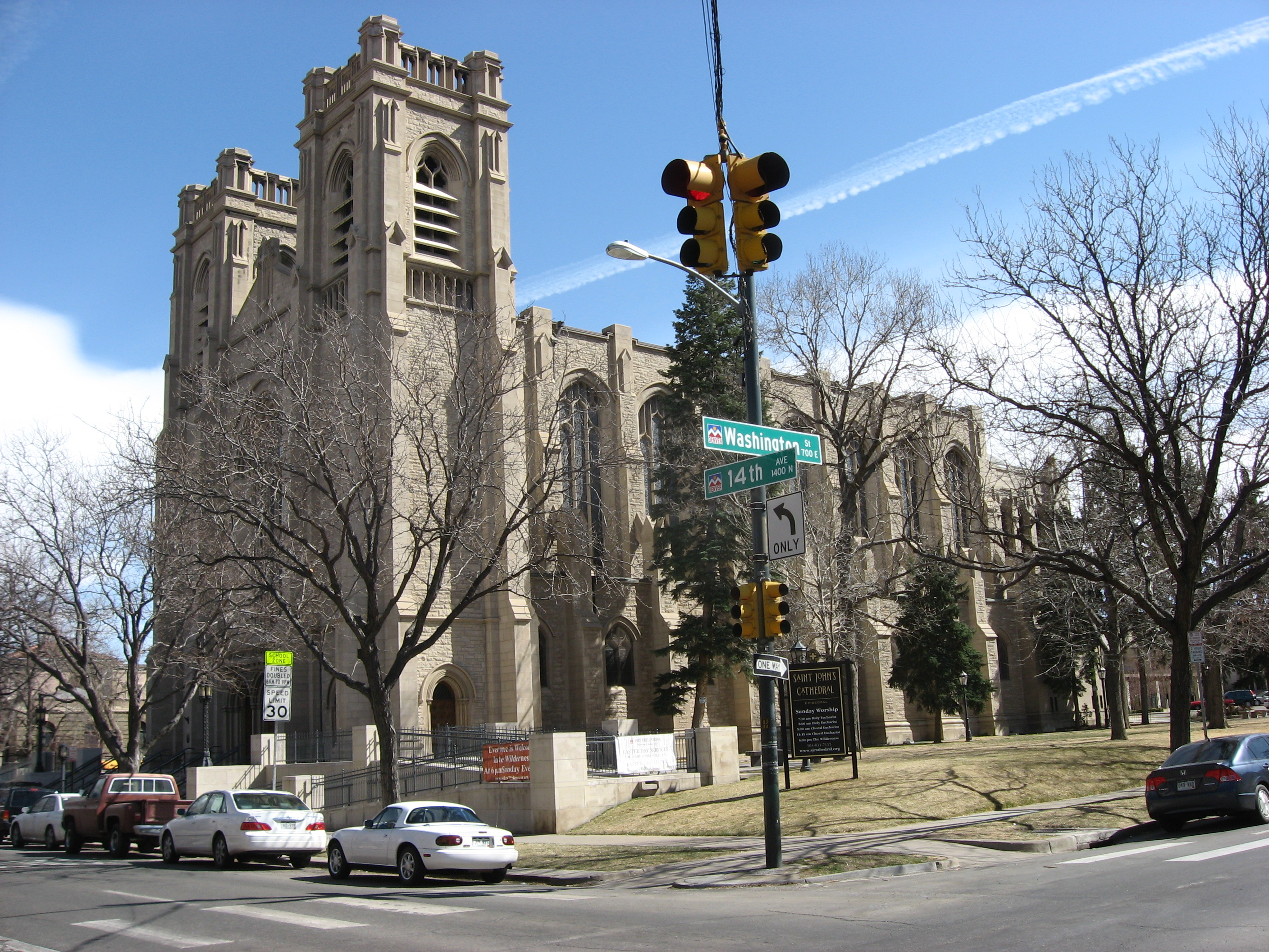 The Cathedral of St. John in the Wilderness, located at the intersection of 14th Avenue and Washington Street in Denver, Colorado, United States. Built in 1905, the Gothic cathedral is the seat of the Episcopal Diocese of Colorado. Under the name of "St. John's Cathedral", it is listed on the National Register of Historic Places.